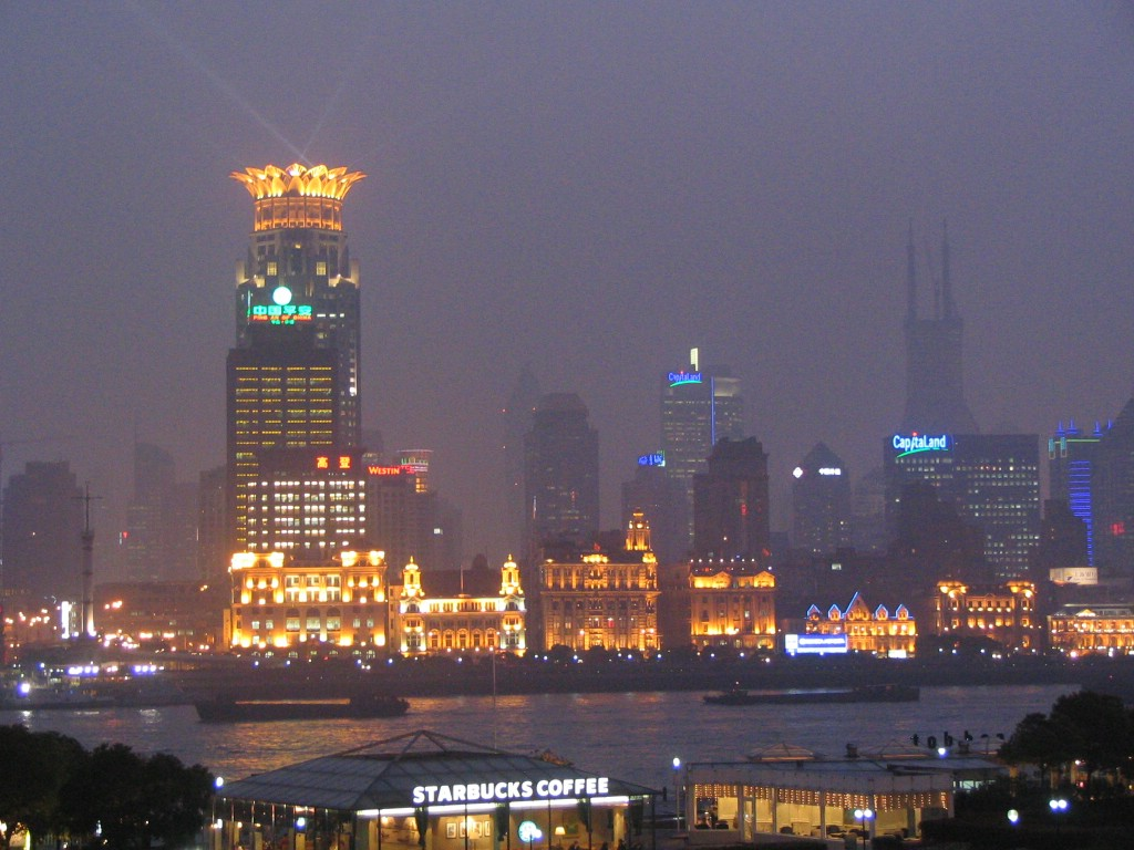 Night skyline of Shanghai, China.